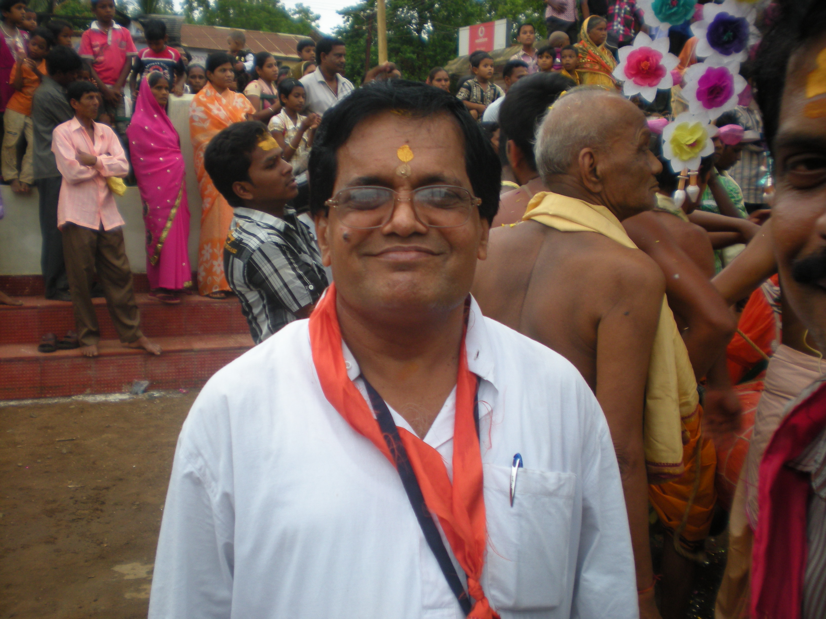 Sj. Rabinarayan Mohapatra is along with people in Ranpur. He is a popular leader of grass root level of Ranpur Biju Janata Dal. Soon after completion of higher study he had started his political carrier as an independence Sarapanch of Ranpur in 1984. For some year he was acting as the President of Biju Janata Dal of Nayagarh district. In past he was closely associated with Sj. Biju Pattanaik, dynamic leader of Janata Dal of Orissa.